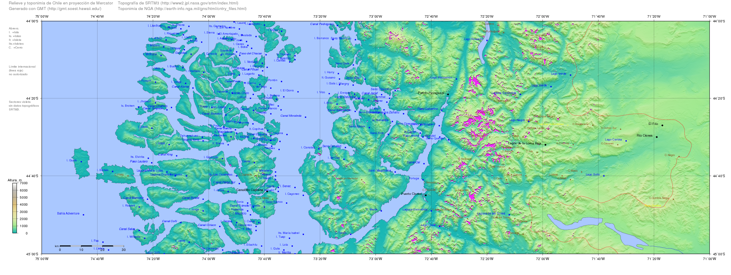 Map of Chile generated with GMT ( topography from SRTM ftp://e0srp01u.ecs.nasa.gov/srtm/version2/SRTM3/ and toponymy from